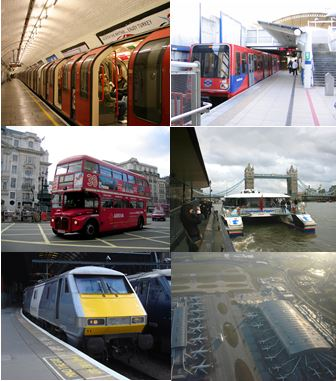 Collage of the main transit mediums in London, England.